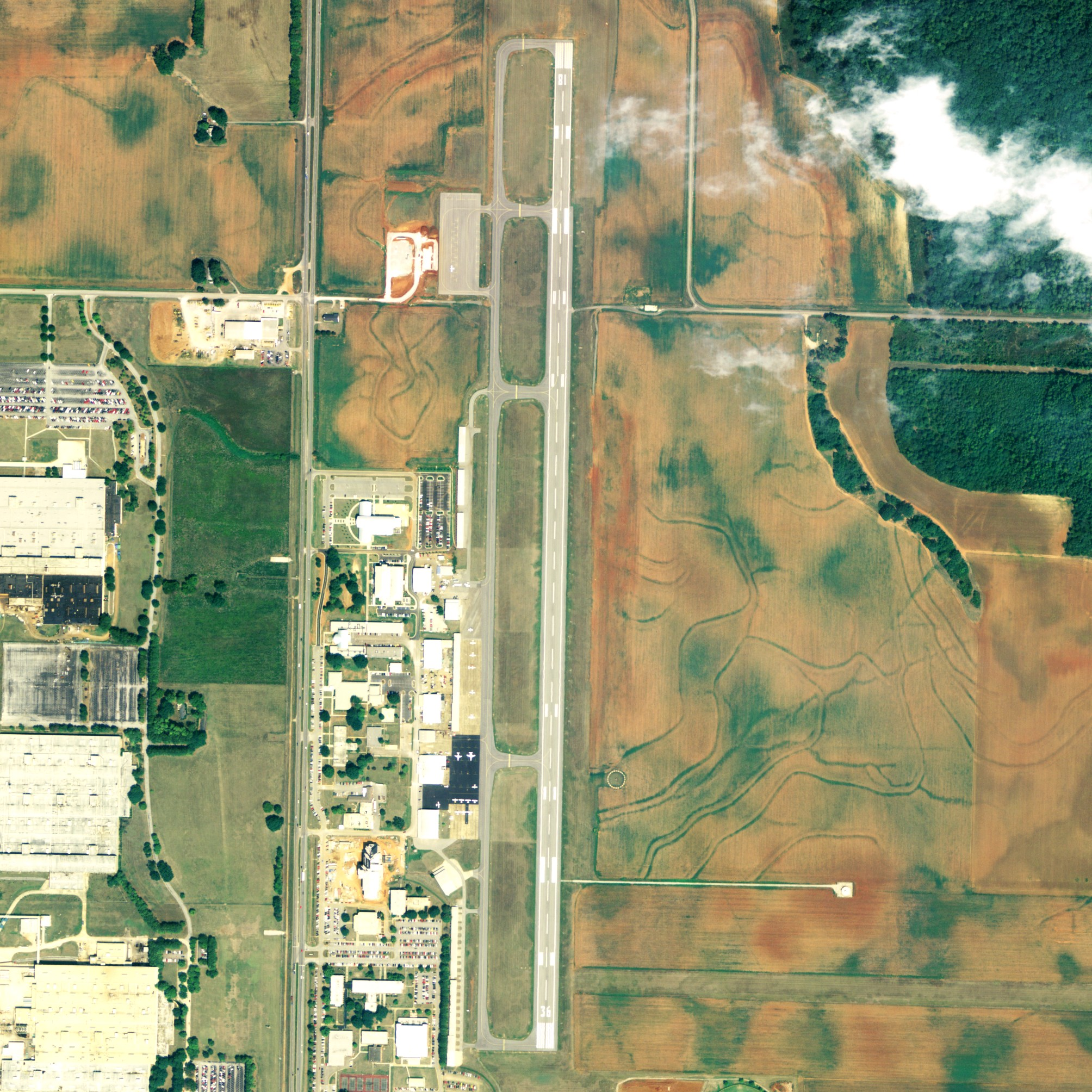 Aerial image of Pryor Field Regional Airport in Athens, Alabama, United States